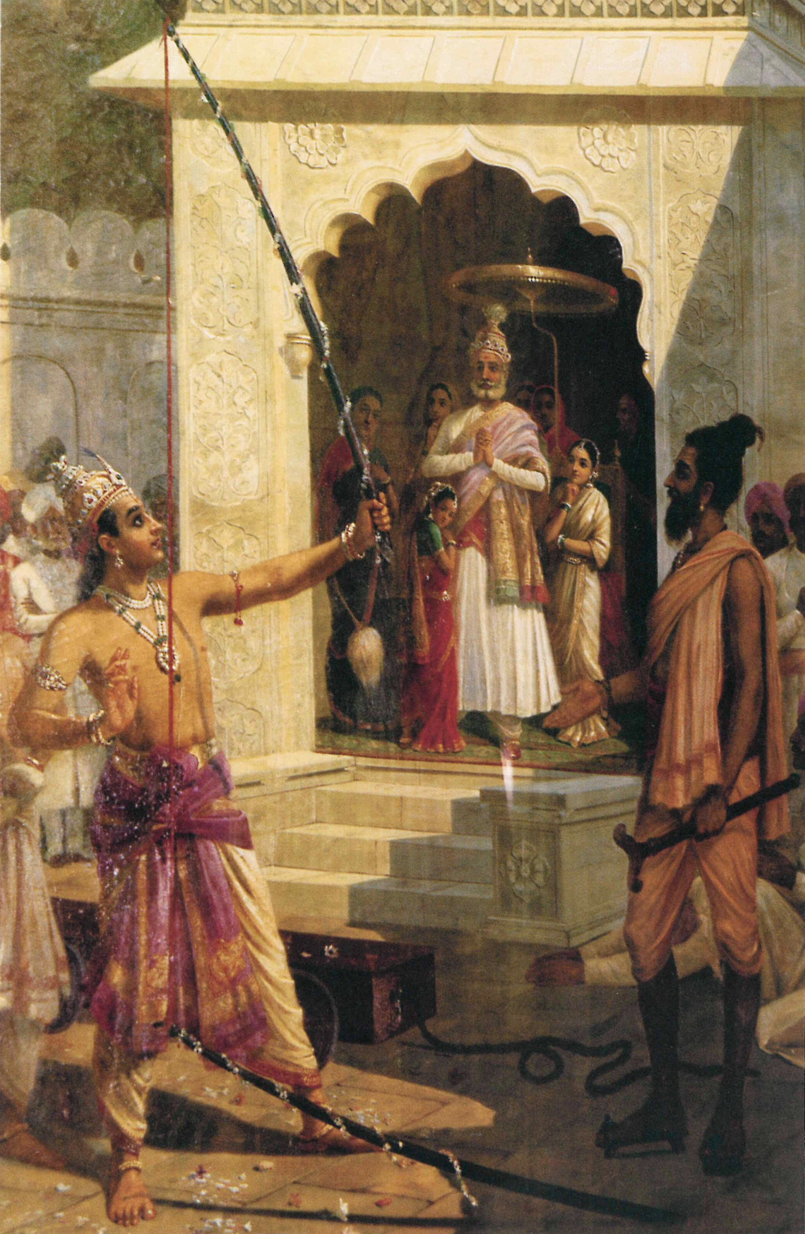 Sri Rama breaking the bow to win Seetha as wife.